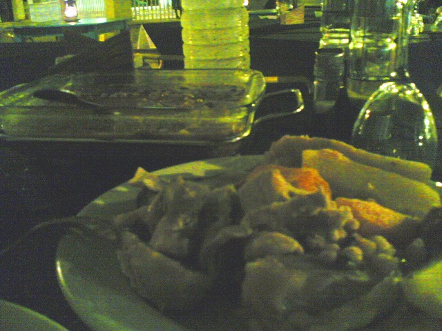 Cachupa, a dish from Cape Verde.